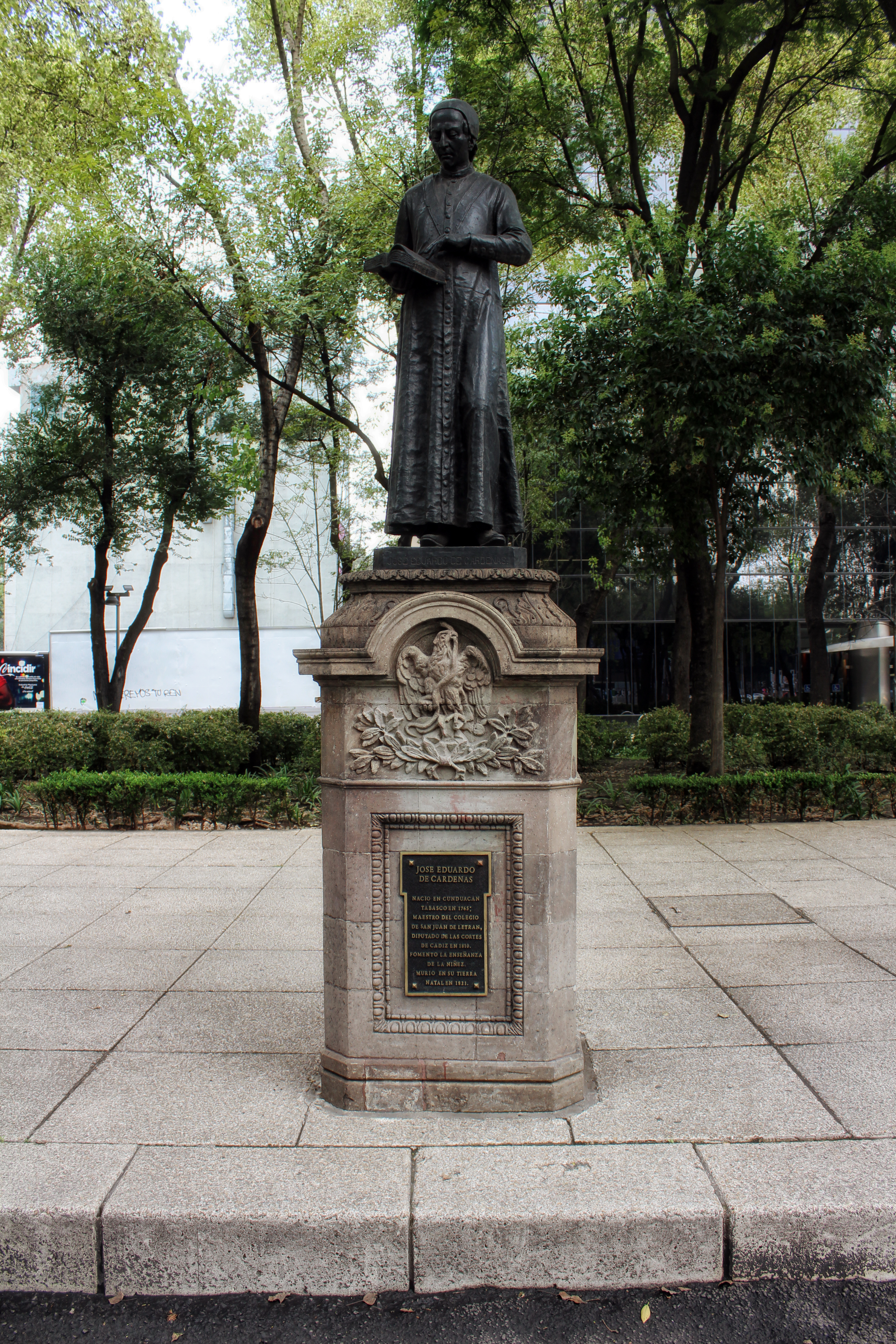 José Eduardo de Cárdenas sculpture, Paseo de la Reforma, Mexico City.